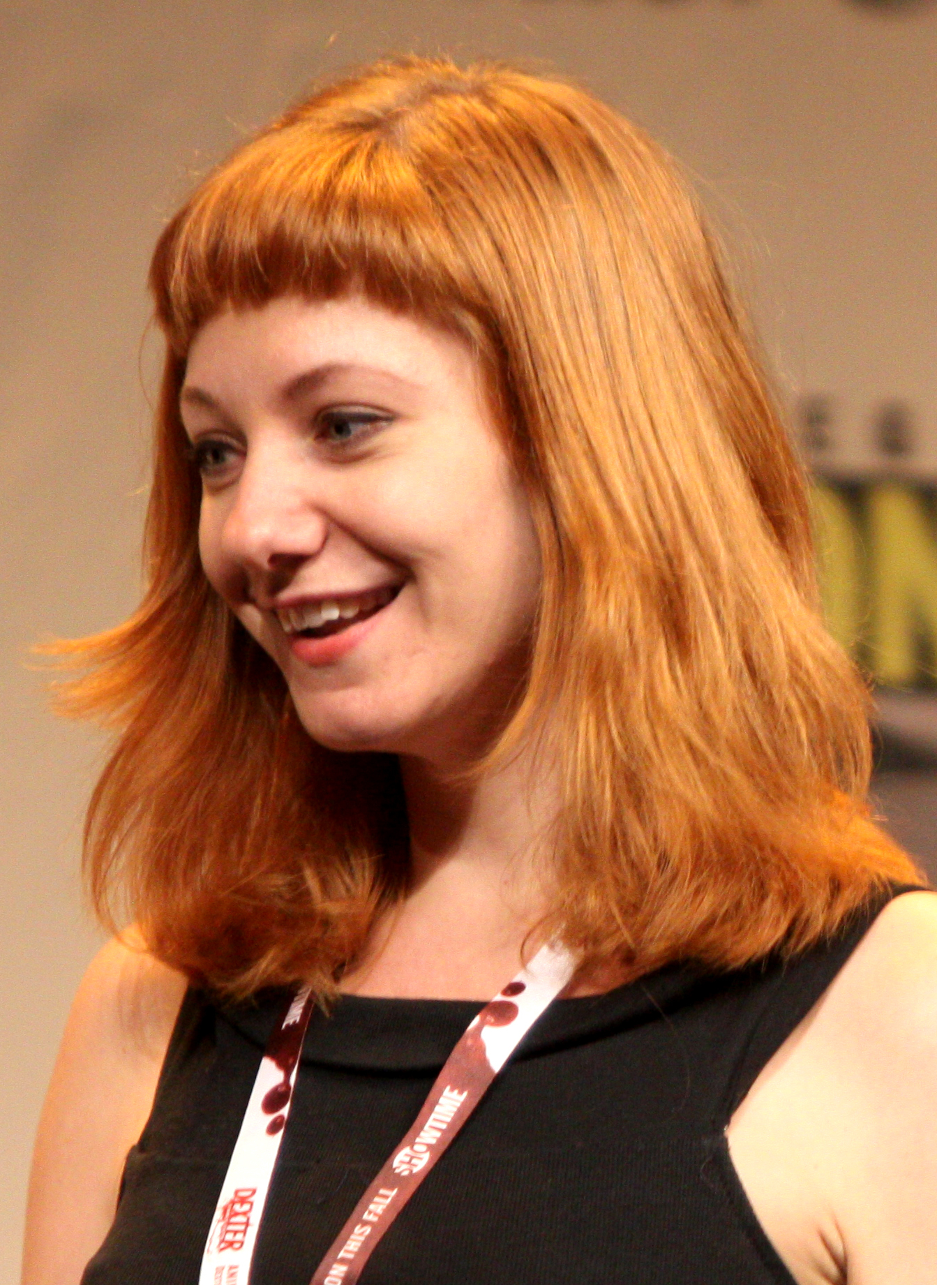 Emily Gordon speaking at the 2012 WonderCon in Anaheim, California.